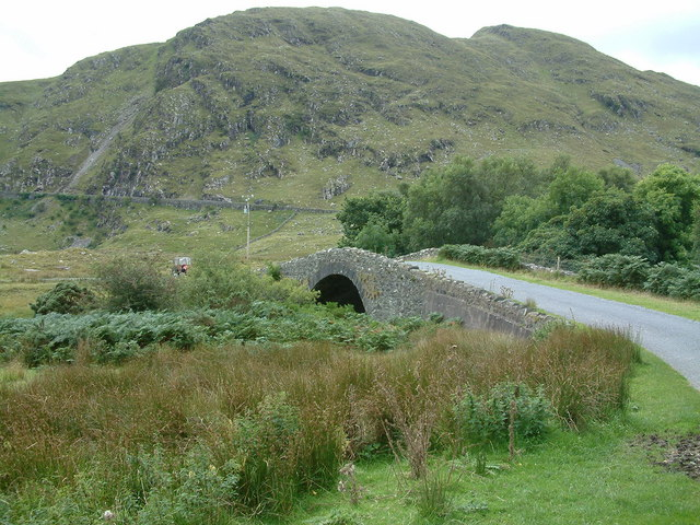 Sheeffry Bridge. On the only road through the Sheeffry Hills.